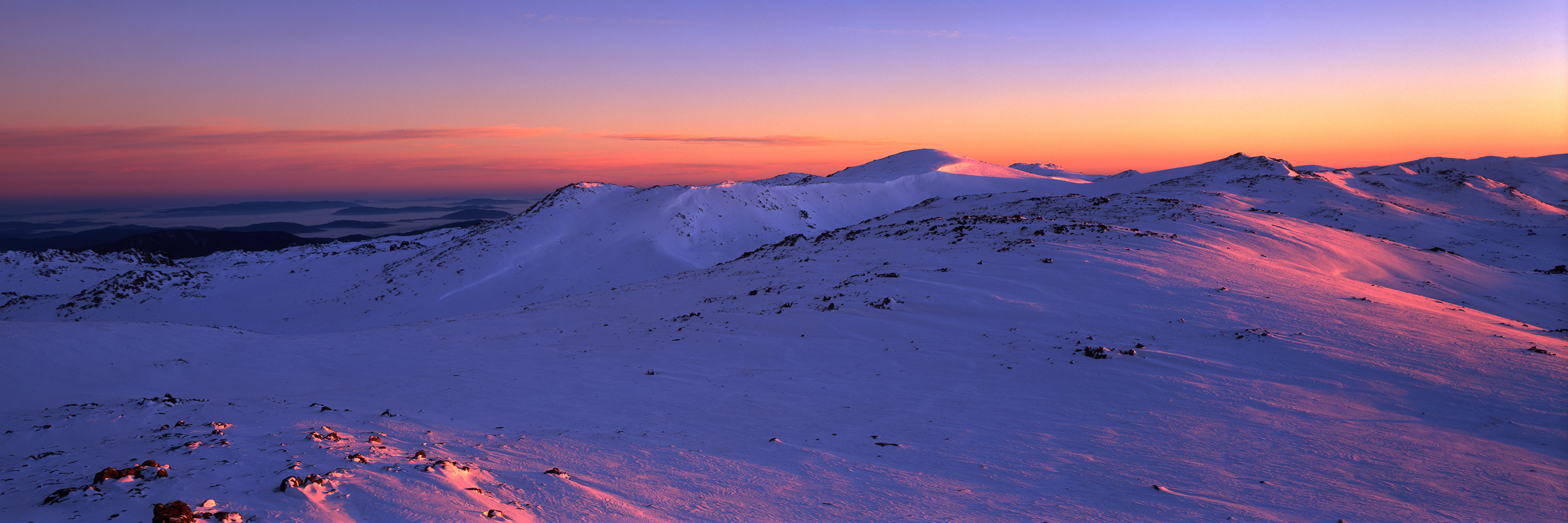 Sunrise on Mt Kosciuszko - Kosciuszko National Park